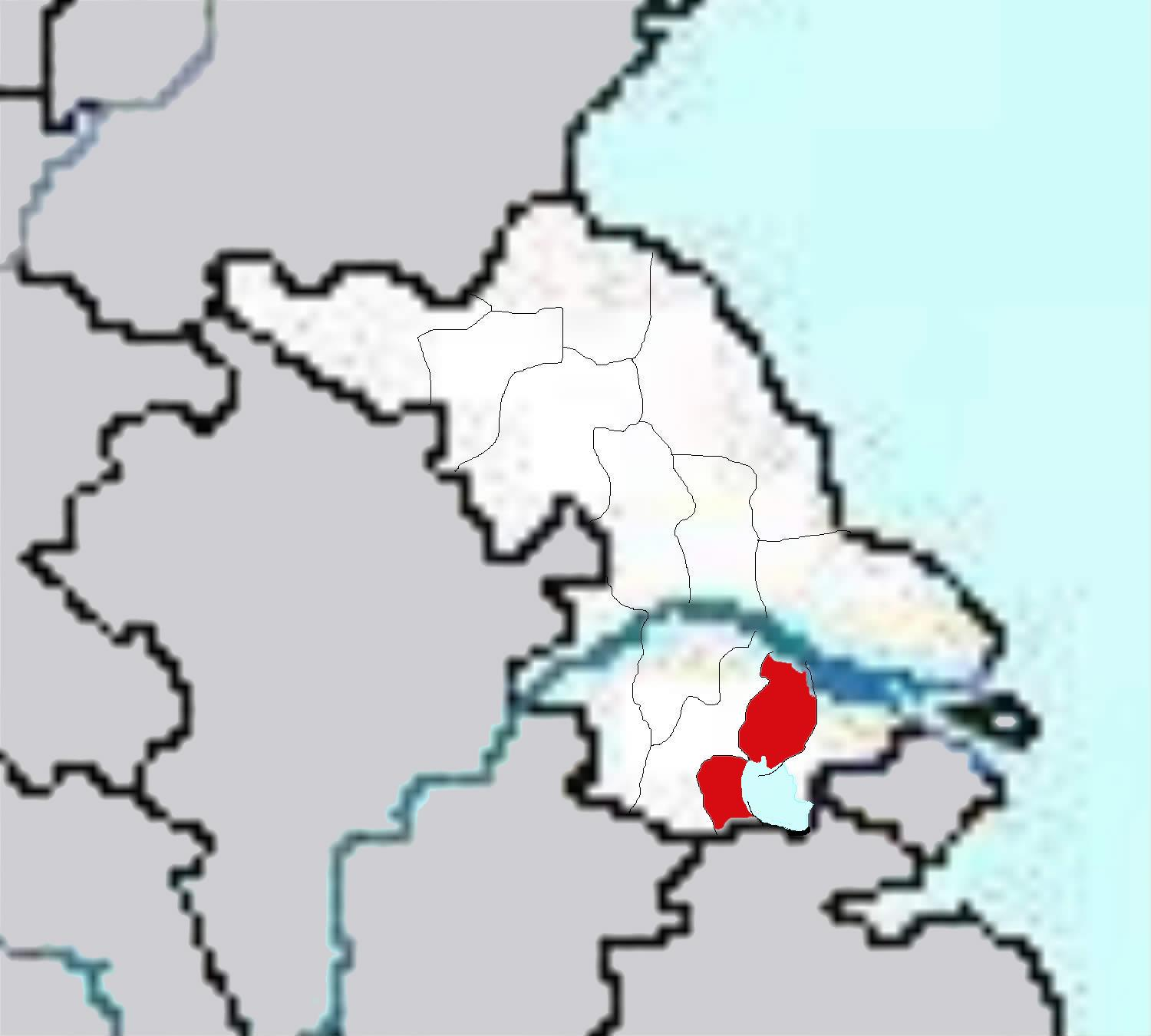 Maps of Jiangsu Province , China